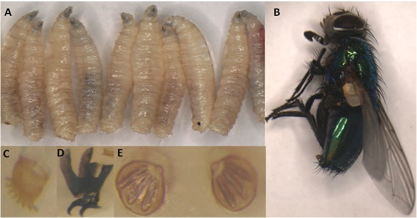 A case of human breast myiasis caused by Lucilia cuprina : Lucilia cuprina A-Larvae, B- Adult, C- Anterior spiracles, D- Head skeleton E- Posterior spiracle Abstract : Myiasis is a parasitic infection that occurs as a result of larvae, settling in living tissues and organs, observed especially in tropical regions and rural areas where animal contact is common. Diagnosis is established by observing larvae of Diptera species in tissues and organs. In treatment planning, determining the type of larvae as well as affected organ and systems is important in terms of treatment and follow up. In this case report, we discussed a female patient with ulcerated mass in the right breast in whom Lucilia cuprina larvae caused myiasis after a holiday in the summer in a village.